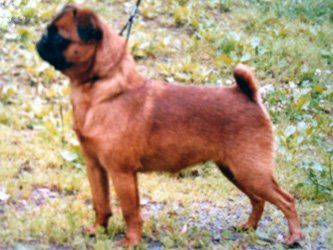 A flatcoat Petit brabançon